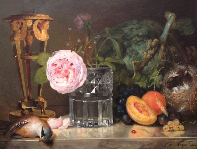 Still-life